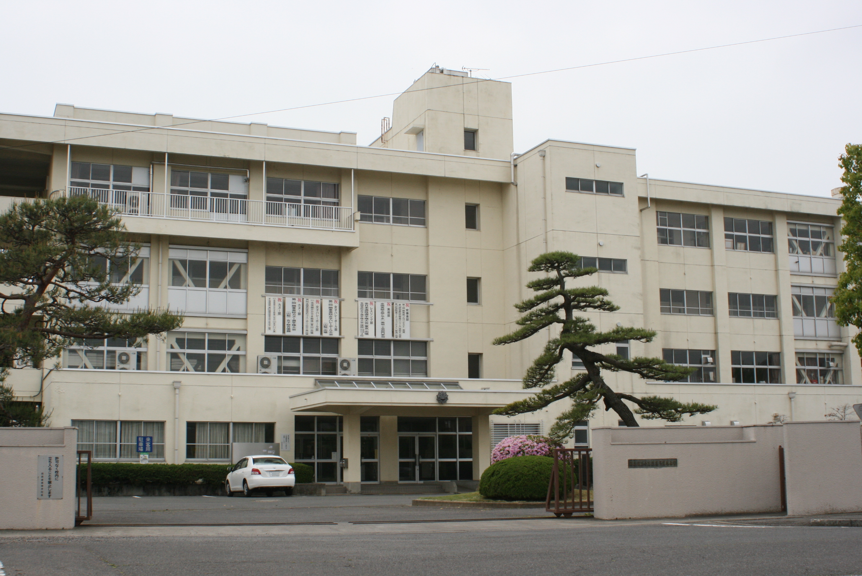 Gunma prefectural Nishi Oura high school